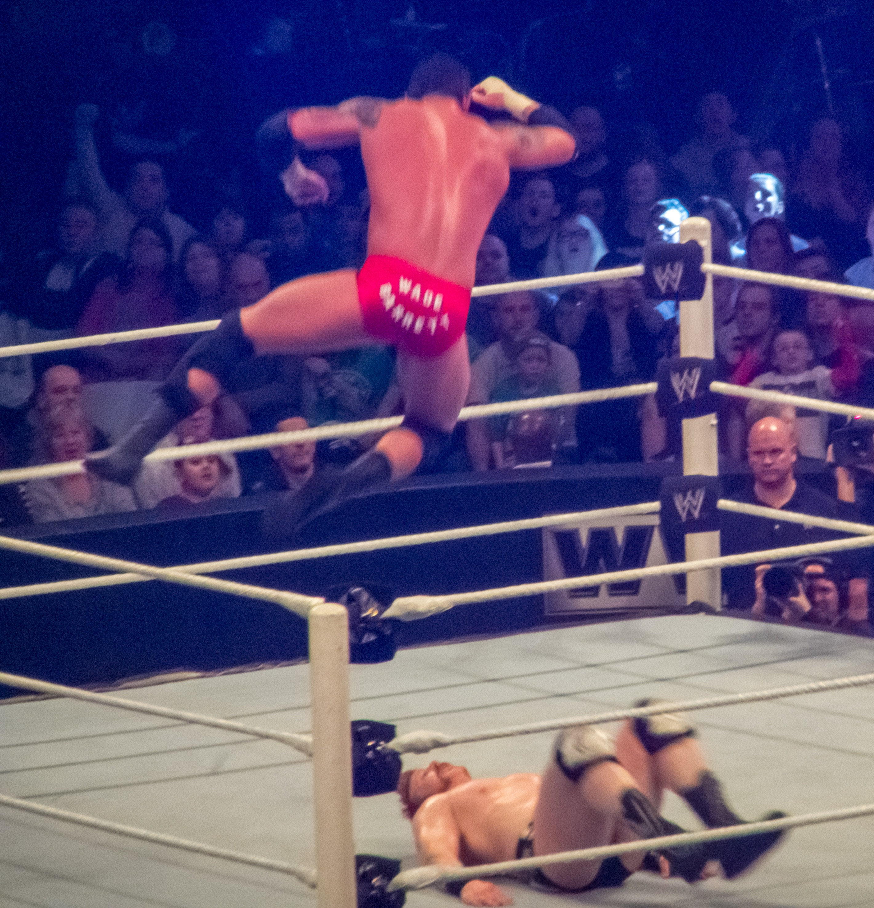 Wade Barrett performs a diving elbow drop onto Sheamus at the WWE SmackDown tapings in West Midlands, England